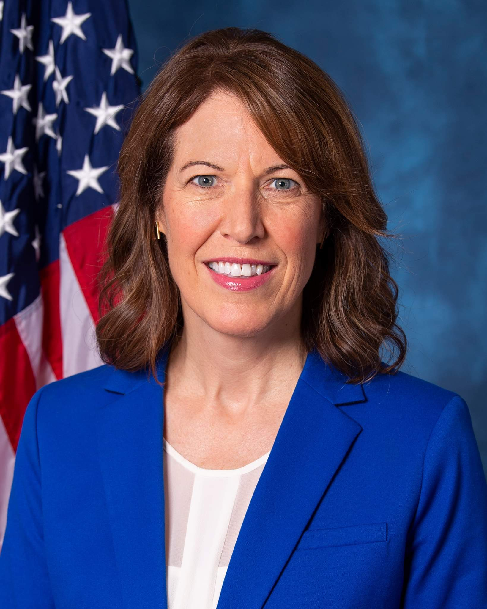 First version of Rep. Cindy Axne's official congressional portrait